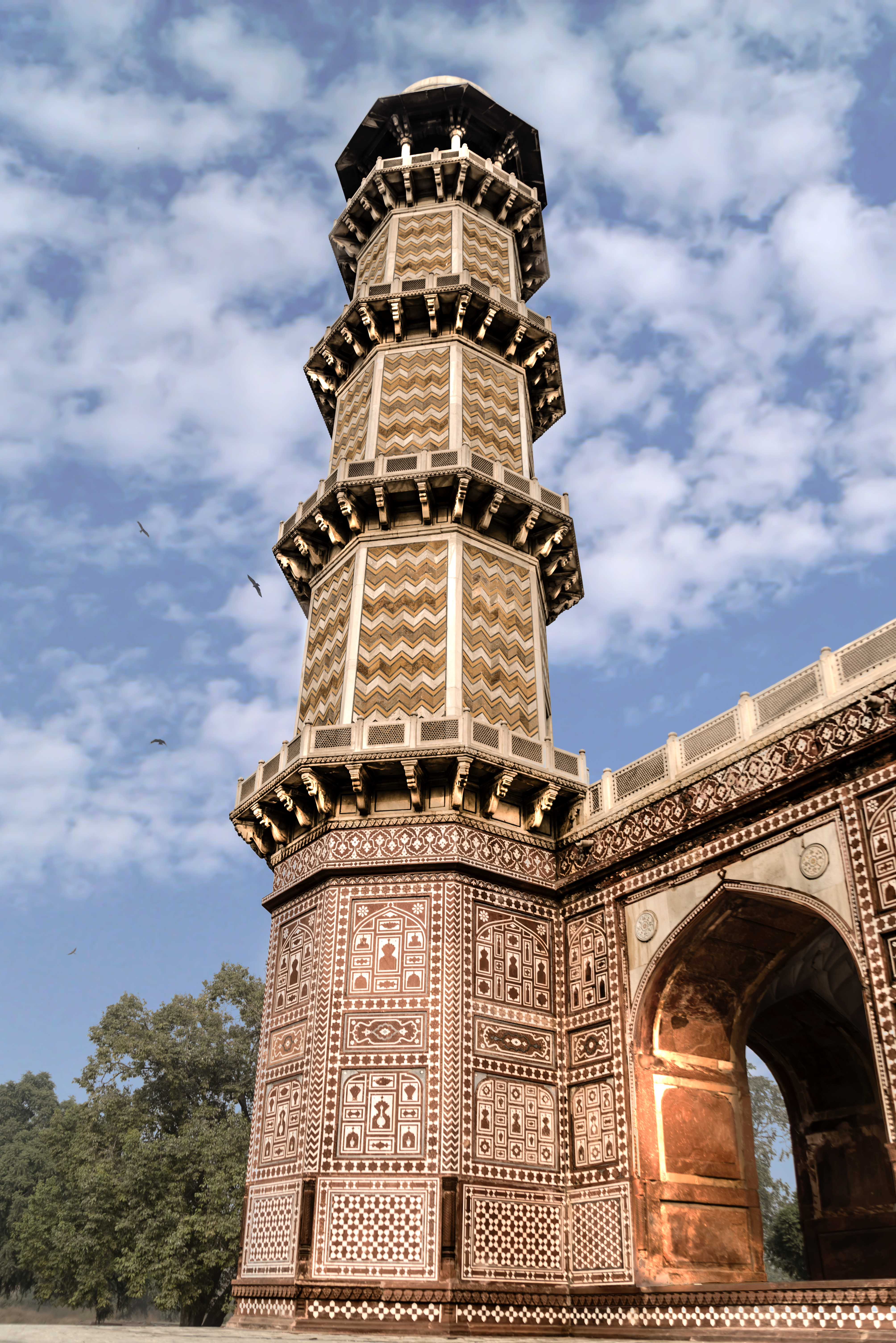 Jahangir’s Tomb and compound This is a photo of a monument in Pakistan identified as the PB-64